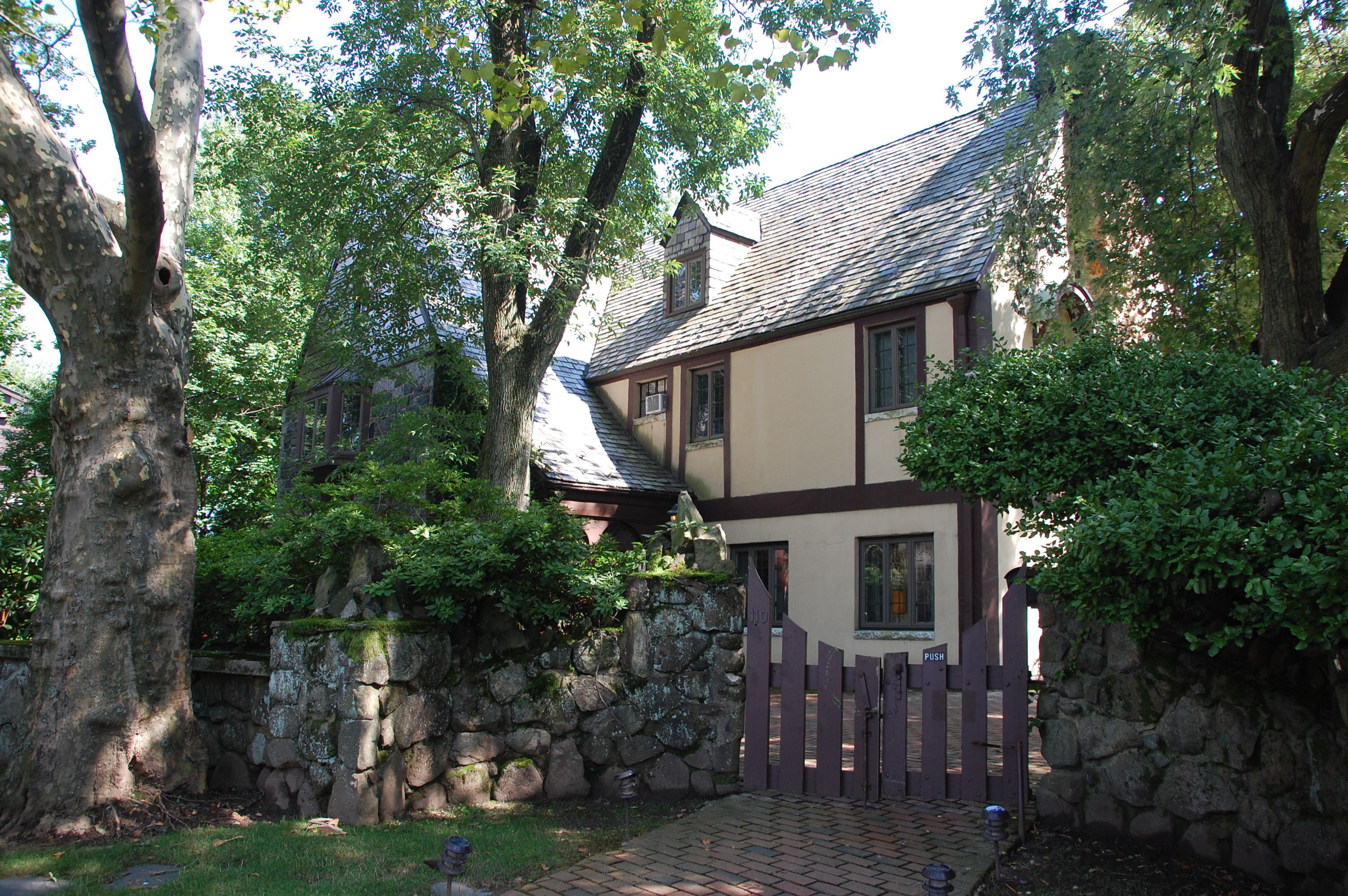 110 Longfellow Road, Staten Island. The "Corleone Compound" set - used in The Godfather movie, this house was the locale for the famous wedding scene.